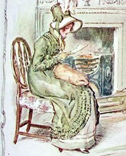 Persuasion, ch 21: Anne Elliot read a letter from Mr Elliot.